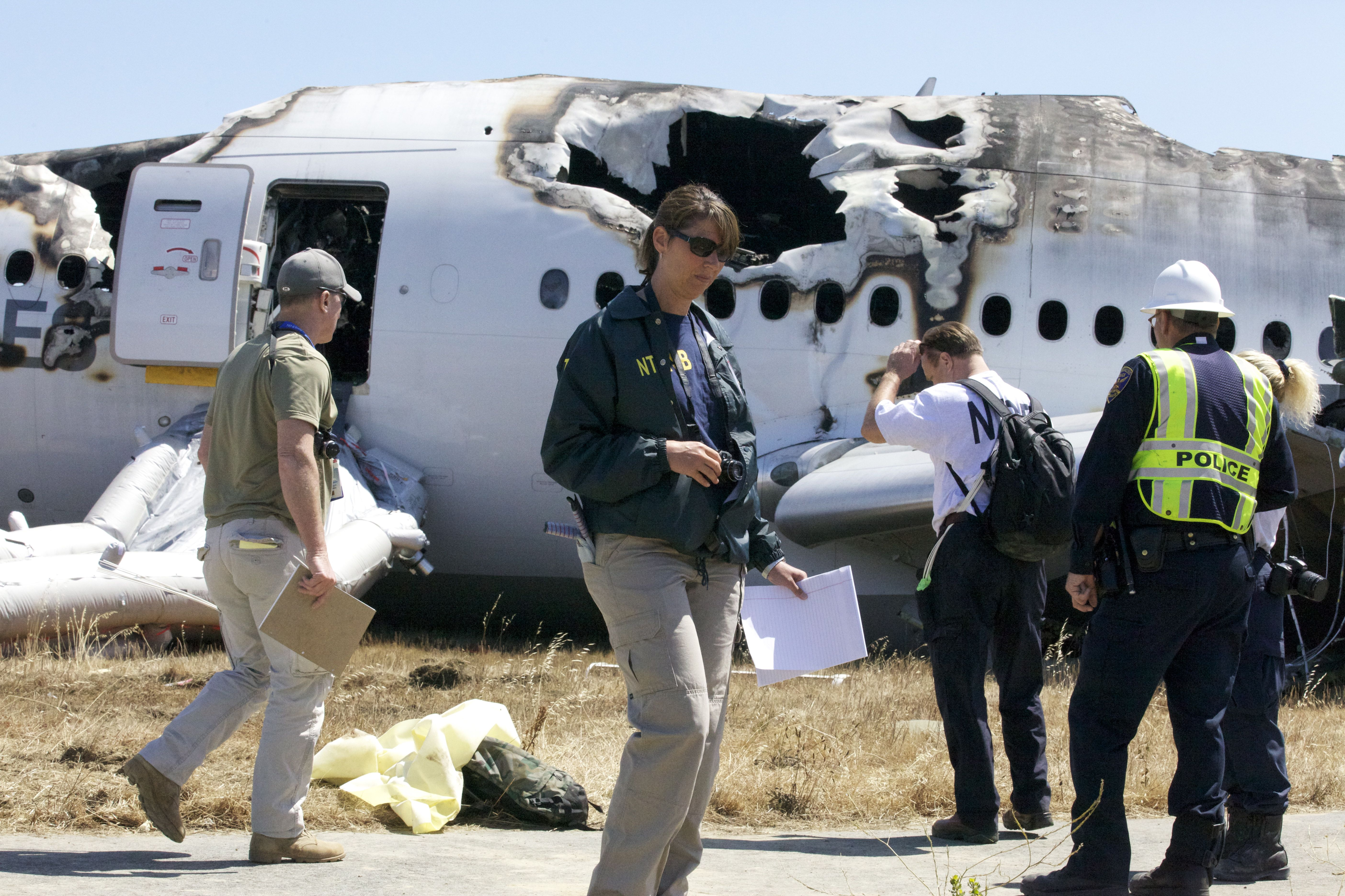 NTSB Investigators on scene at crash of Asiana Flight 214